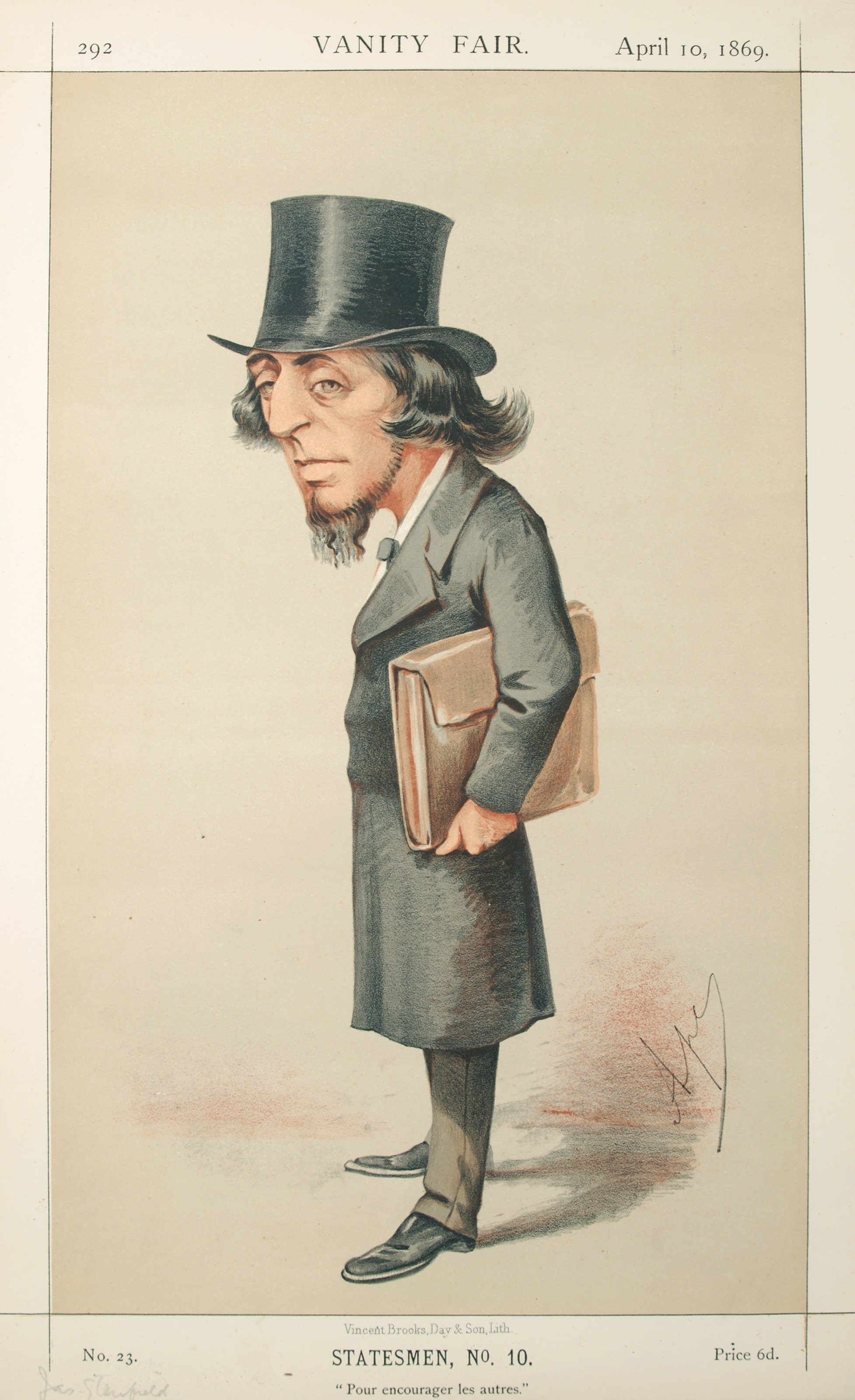 Statesmen No.10: Caricature of The Rt Hon James Stansfeld. Caption reads: "Pour encourager les autres."